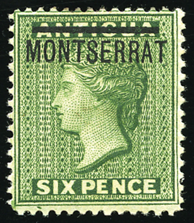 1863 Stamp of Antigua overprinted 'Montserrat', 1876, 6 pence.